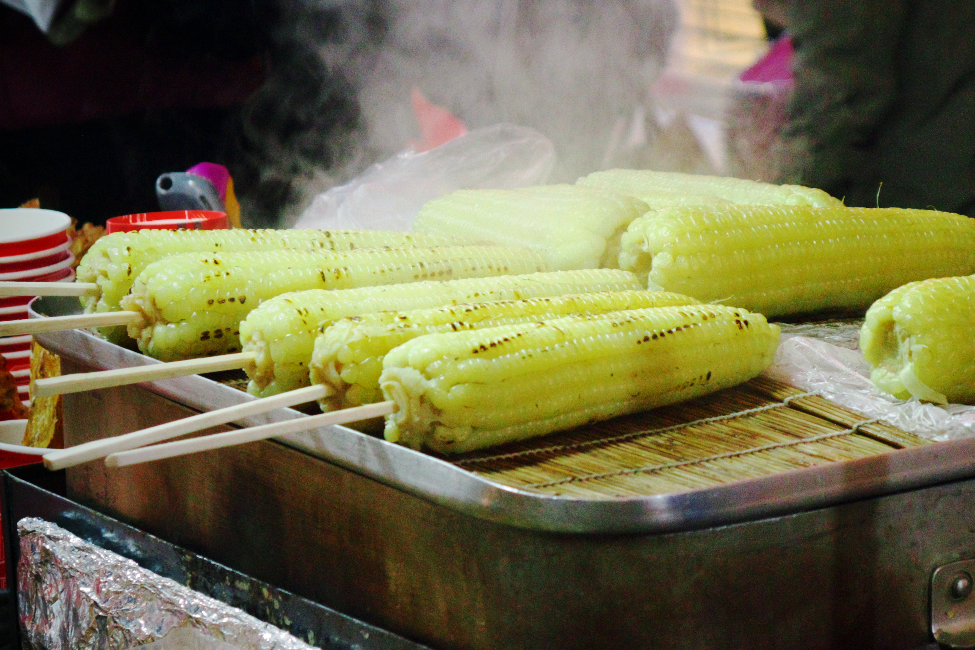 corn on a stick